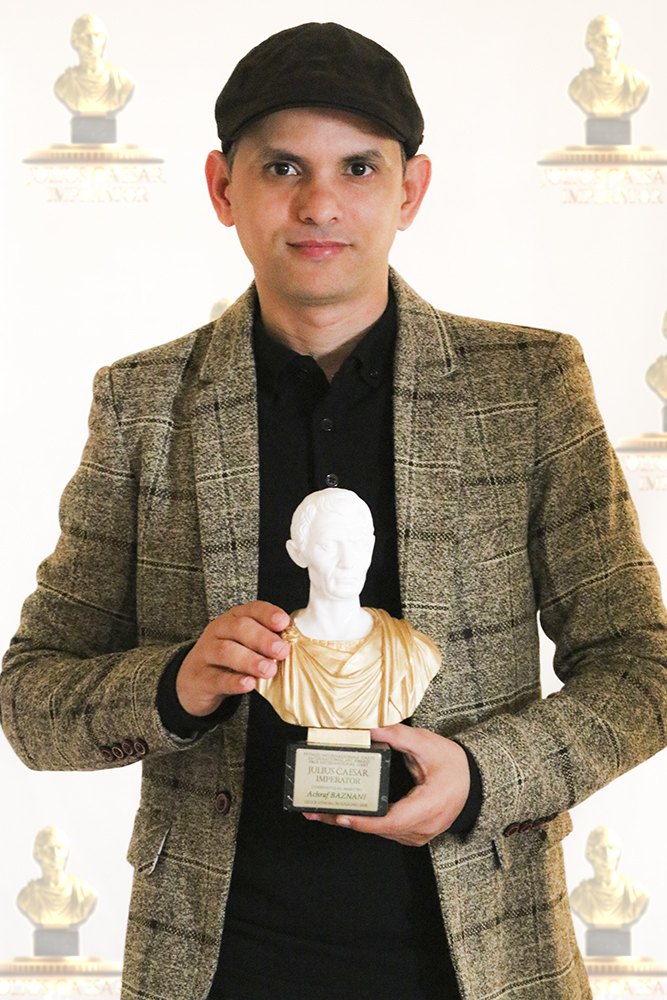 Achraf Baznani has Won the JULIUS CAESAR IMPERATOR ART AWARD in 2018. Lecce, Italy.